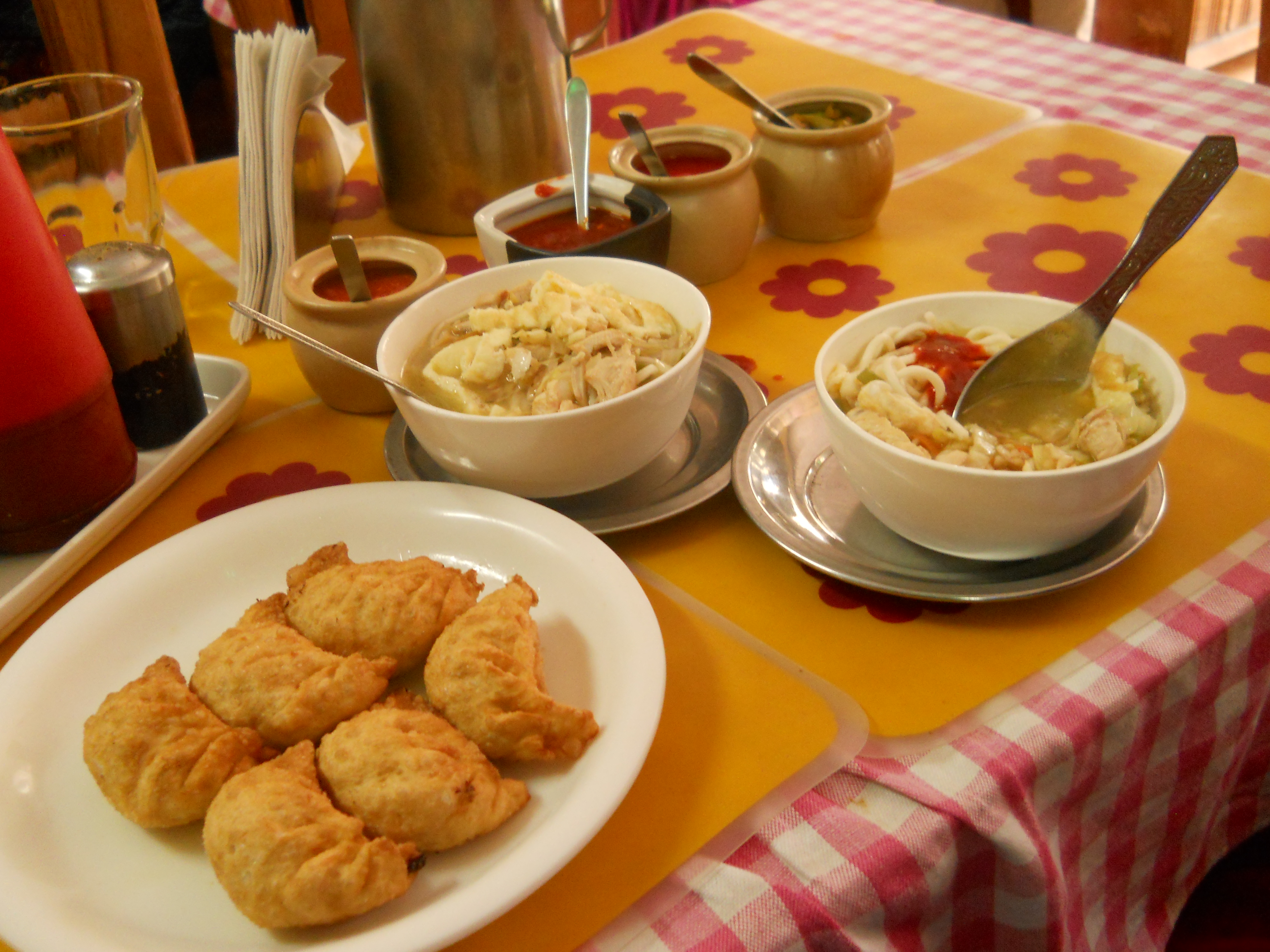 Tibetan Culture is very much a part of India and the picture is taken at Kodaikanal, Tamil Nadu. Picture is of Thupka with Momo